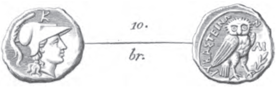 An illustration of a coin of Ruvo di Puglia